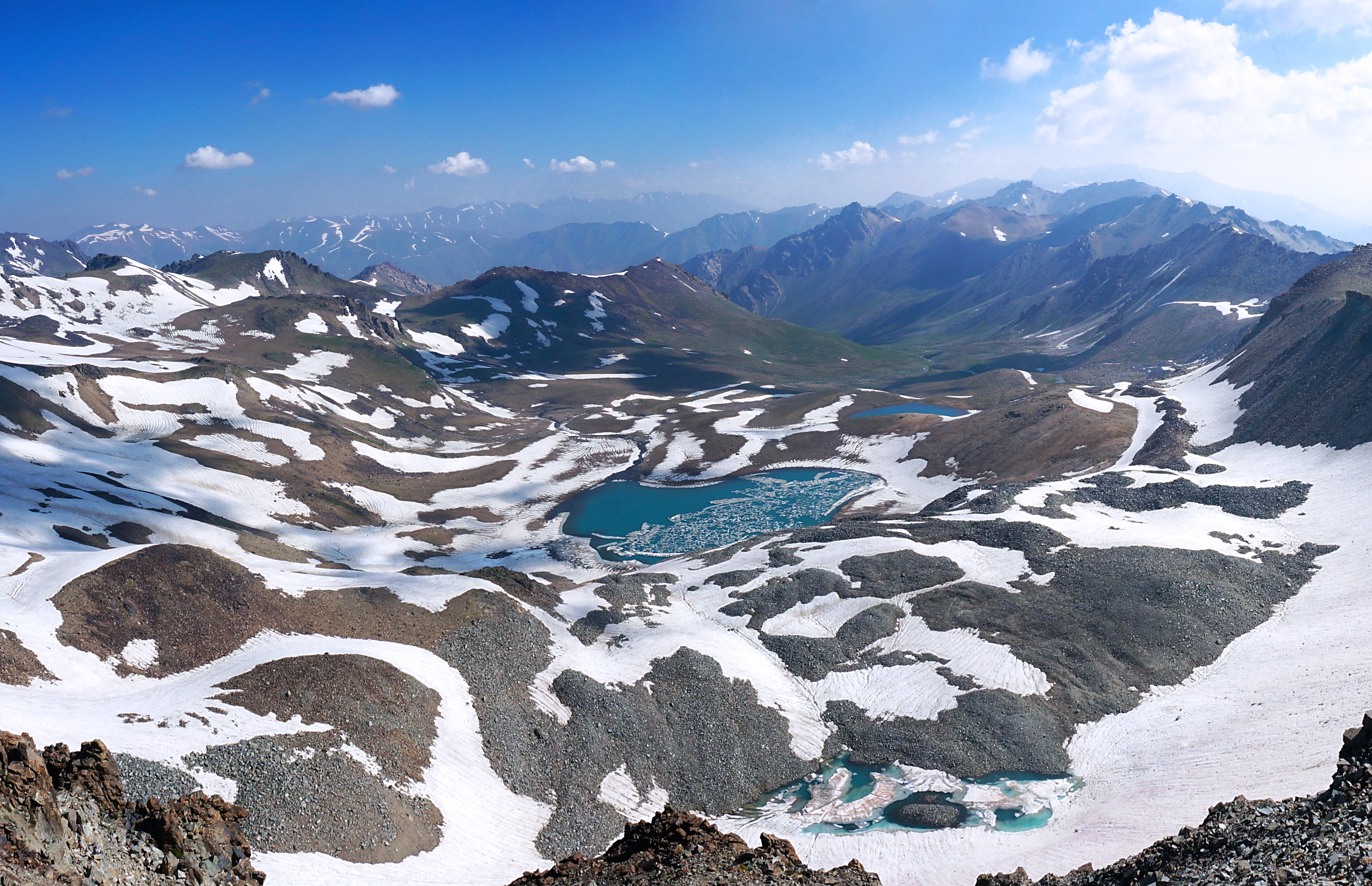 The nameless lake on head of river Akbulak (Namangan area, Uzbekistan)